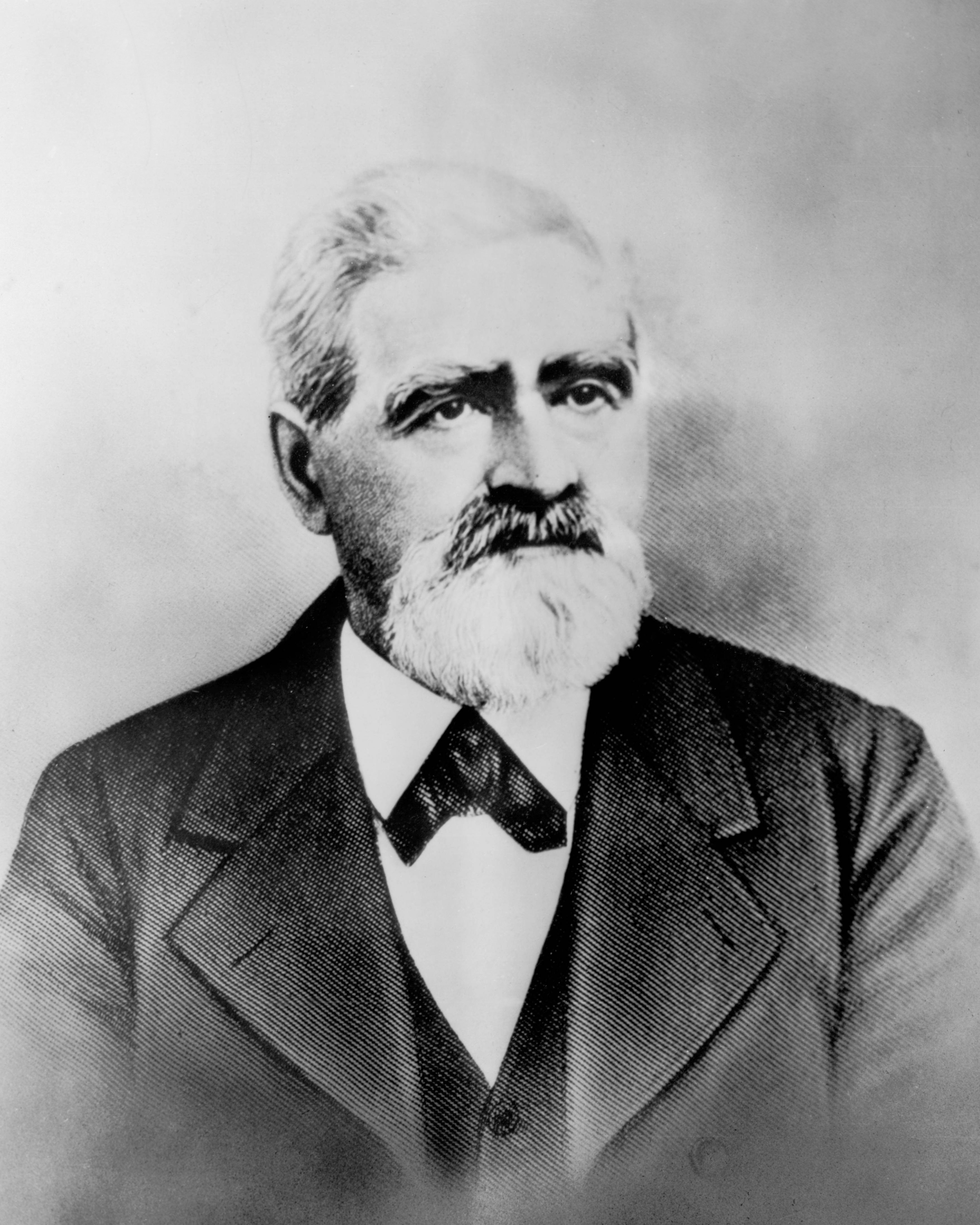 Photographic portrait of landowner Issac Lankershim, California, [s.d.]. Issac Lankershim (1818–1882) is pictured here in bust, looking slightly to the right, ca.1870s. He wears a dark suit and ribbon-style tie, as well as a dark vest. His face is stout and a well-trimmed beard has gone white beneath his nose and on his chin. His hair is short-cropped and combed harshly back, but is otherwise full. His eyes seem gentle and earnest. Picture file card reads: "Born in Bavaria in 1820. Came to U.S. in 1837 and located in Missouri. He came to California about 1850 and was a rancher in Solano Co., sowing a large acreage to wheat and extending his operations to other districts, finally coming to L.A. County, where he purchased a large tract of land in the San Fernando Valley. In 1869 he became president of . In 1875, he and J.B. Lankershim loaded three ships with wheat for Liverpool from the San Fernando Ranch. Mr. Lankershim died in 1882, leaving two children--Mrs. L.N. Van Nuys and J.B. Lankershim." Photoprint reads: "Came down from San Francisco in 1869 and through the San Fernando Farm Homestead Association acquired title to the southernly half of the San Fernando Valley. He was later [...] by his friend Isaac Newton Van Nuys. Through their activities their land became one vast wheat ranch, with Liverpool, England, one of their markets."